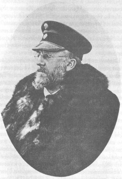 Nikolai Petrovsky (1837-1908), a Russian diplomat.